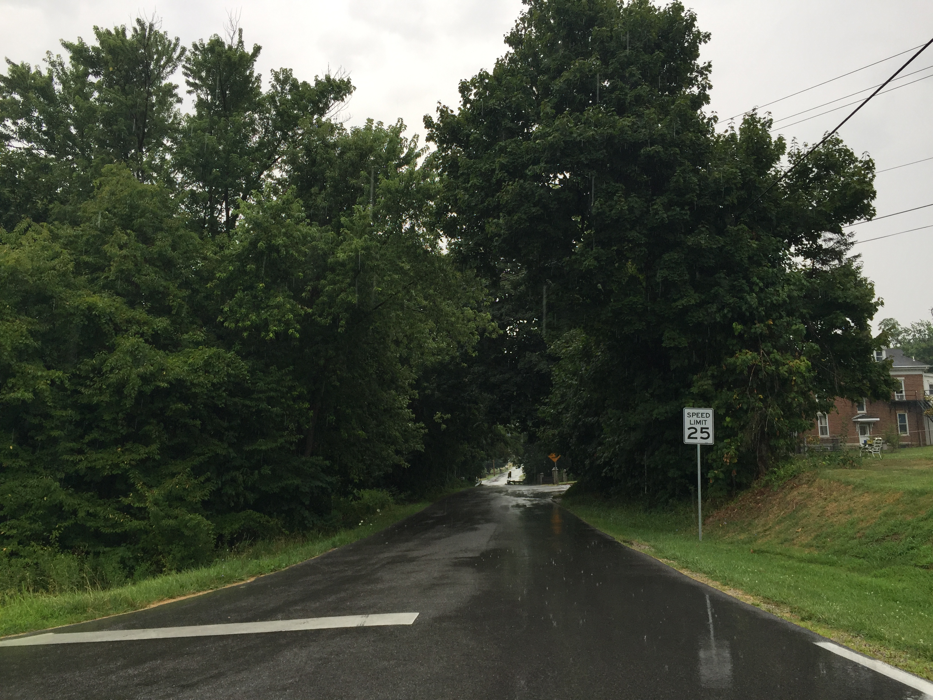 View east along Maryland State Route 844 (Cavetown Church Road) at Maryland State Route 64 (Jefferson Boulevard) just east of Cavetown in Washington County, Maryland